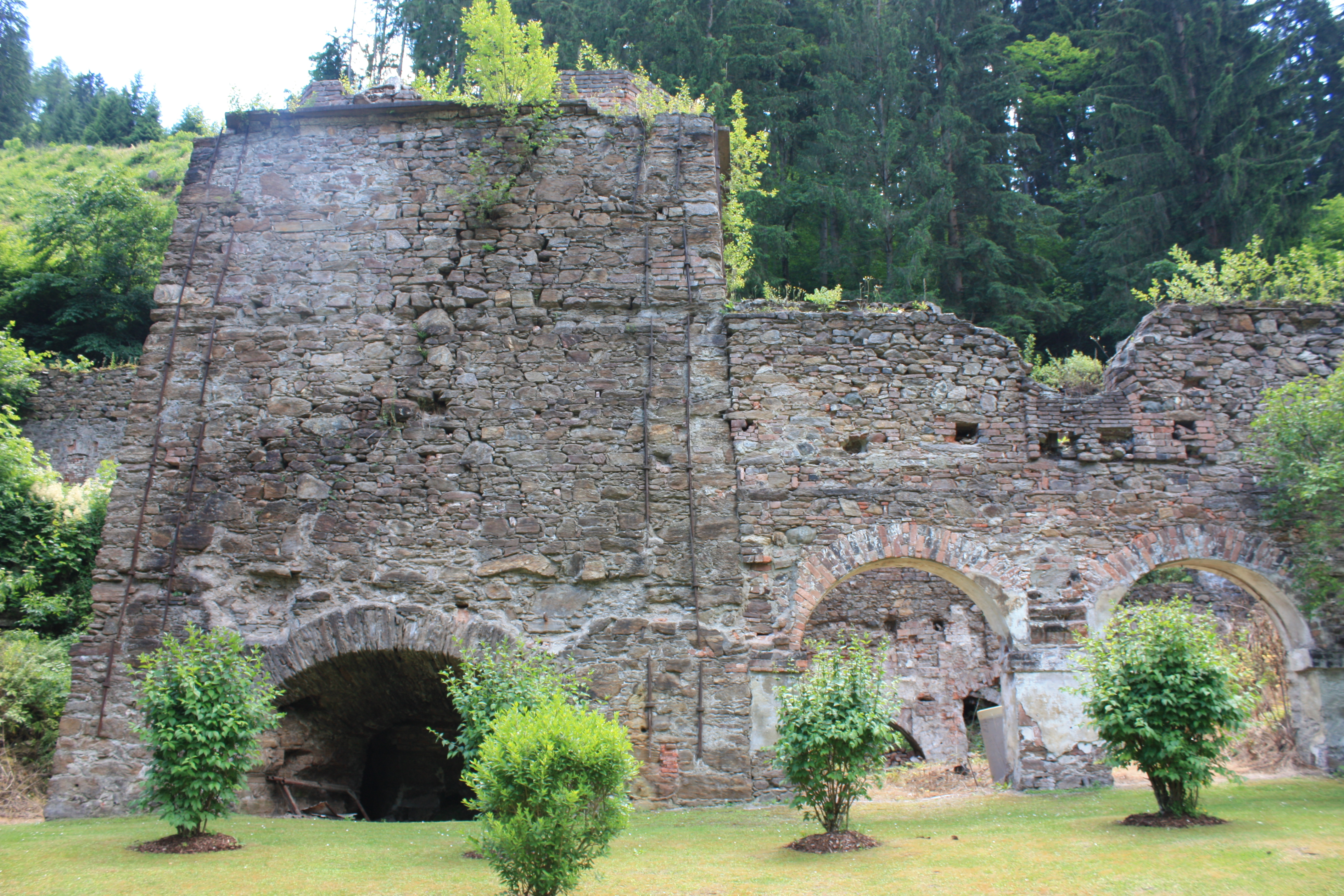 Ruin of the Blast furnace Locality:Lölling Community:Hüttenberg